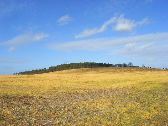 Adwell Cop Weed-killer has been applied to this arable land. The appearance from a distance is reminiscent of a crop in high summer. The woodland just protrudes into this grid-square.